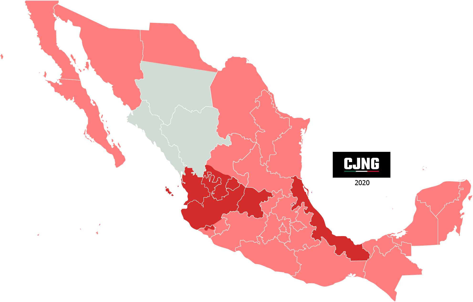 Areas of action of the CJNG. Main areas of activity Secondary zones of activity or influence